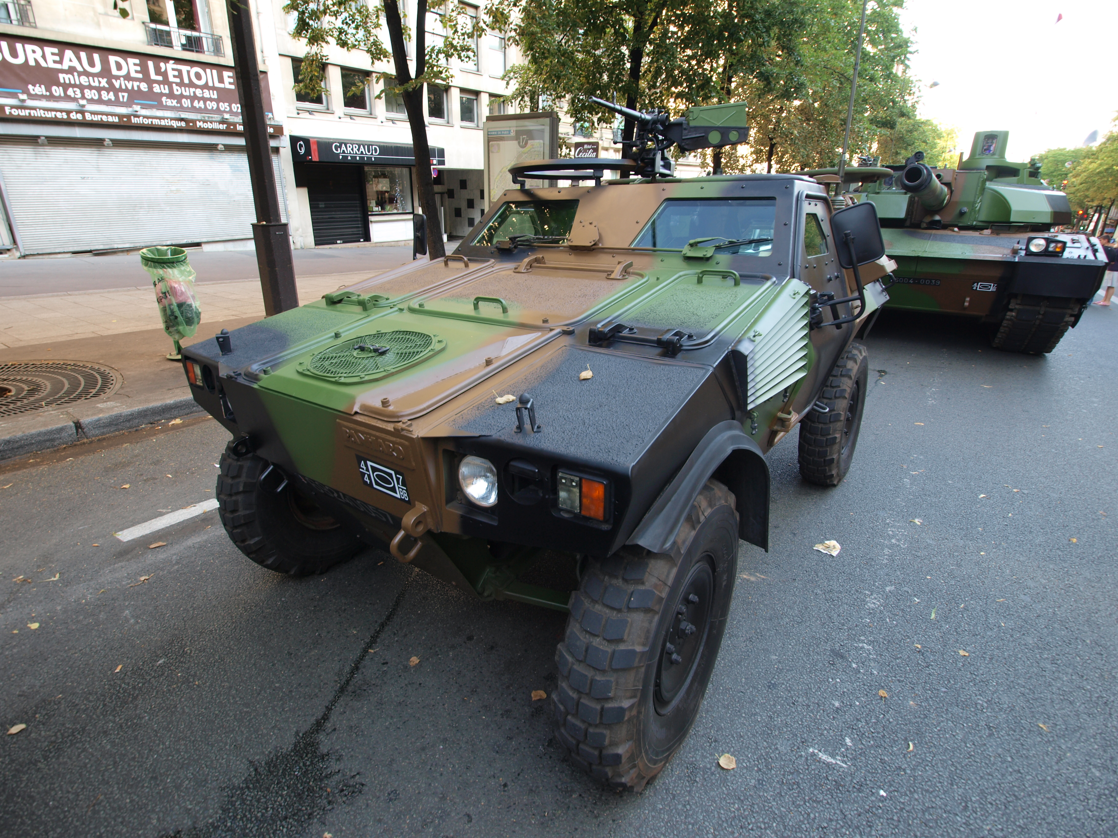 Panhard VBL (Vèhicule Blindé Legér), French army licence registration '6924 0057'